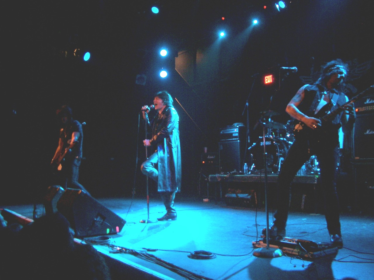 Phil Lewis, Stacey Blades, Steve Riley, and Scotty Griffin at the Chance Theater in Poughkeepsie, NY. March 27, 2008.